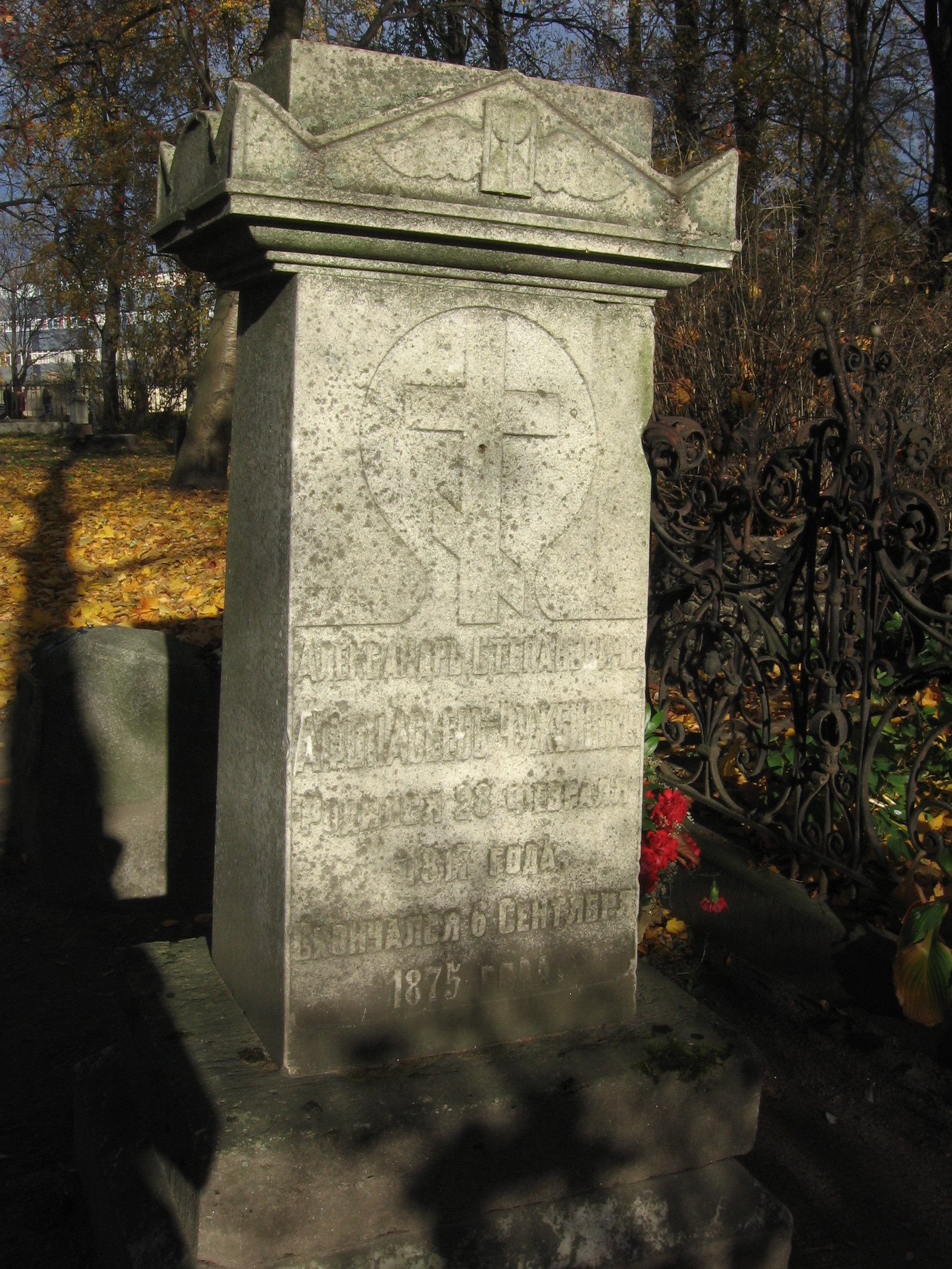 Grave of Afanasyev-Chuzhbinsky